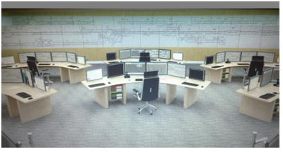 Image generated for a control center OCC equipped with EBIScreen ATS